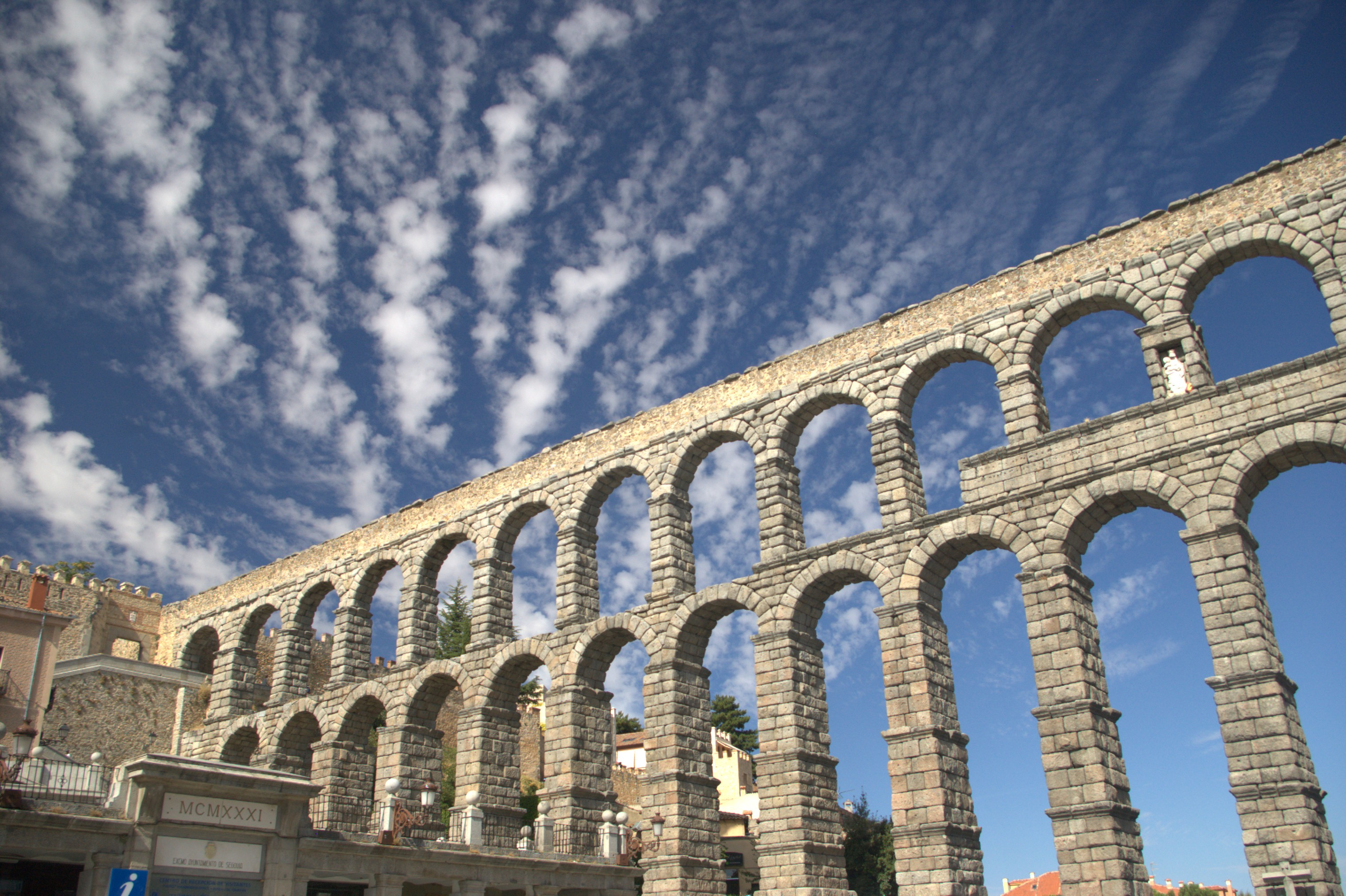 The roman aqueduct of Segovia